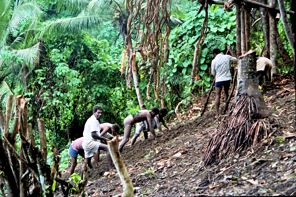 Softening the ground for a safe landing, Pentecost Island Vanuatu